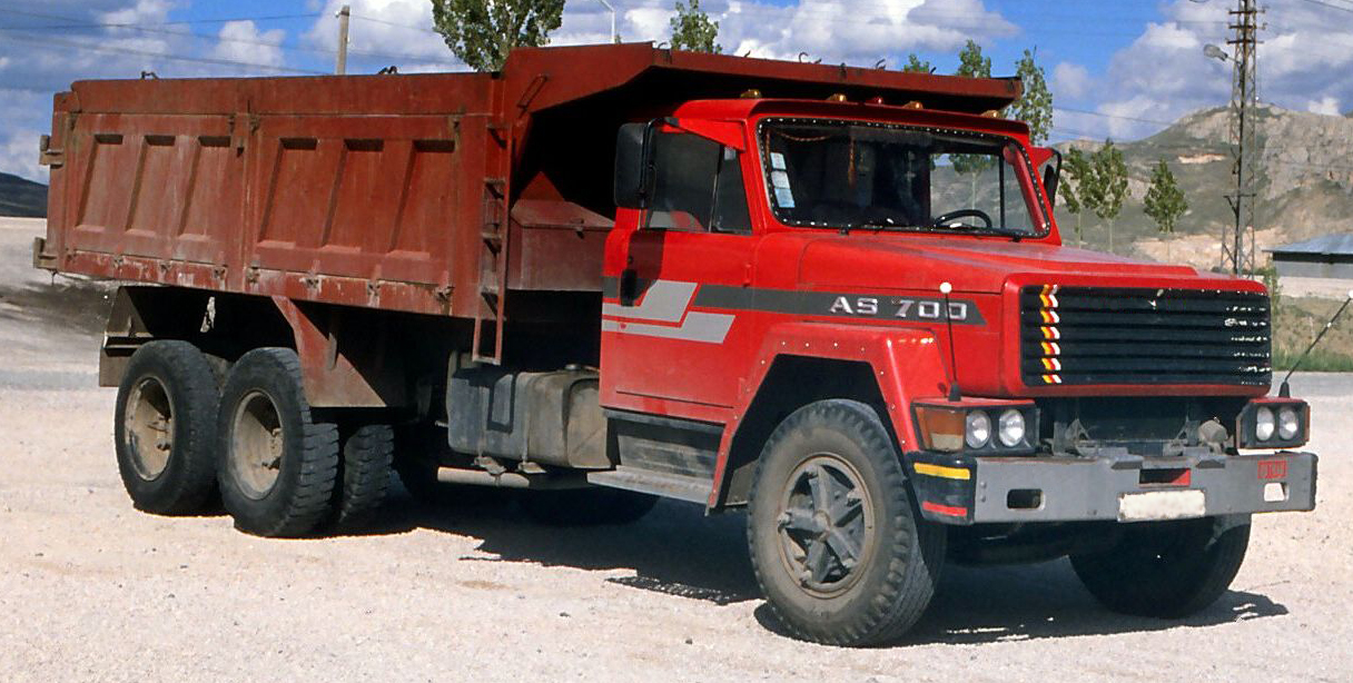 De Soto AS 700 dump truck, photographed in Turkey, 1989.